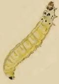 Stainton’s Natural History of the Tineina (1855–1873): Coleophora lineolea larva